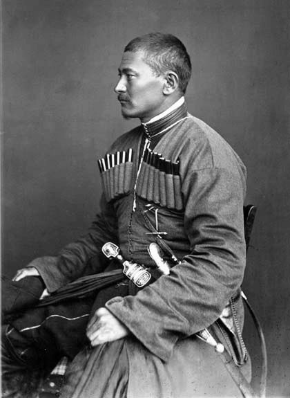 Umar Kiparov. Nogay people. Beginning of XX century. Collection of the Russian Museum of Ethnography